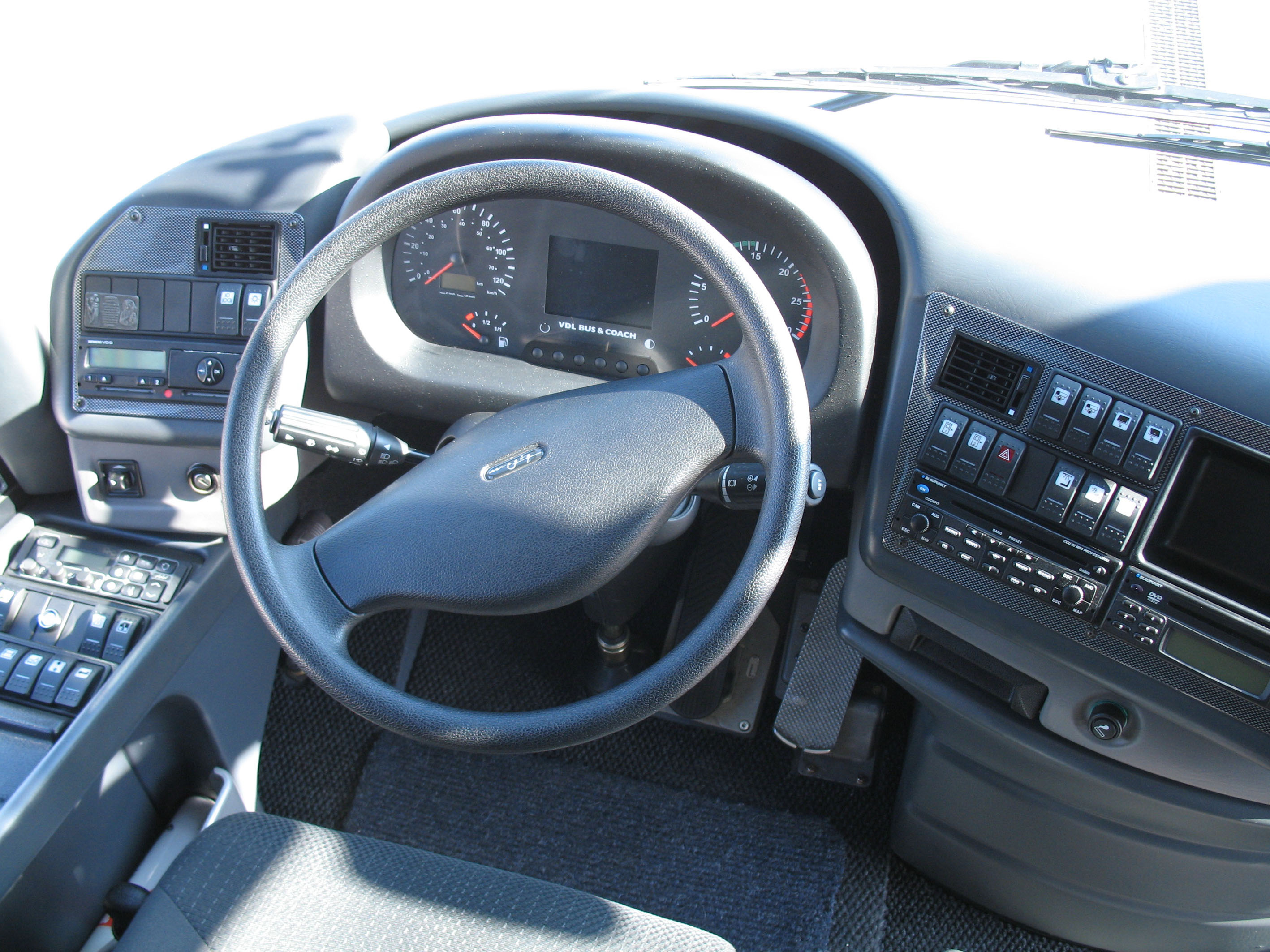 VDL Bova Magiq MHD 148-460 Magnum coach (reg. WPI 5YT4) cockpit in Kielce, Poland. Built 2010, Beatur Lublin operator.